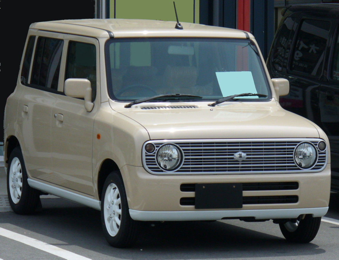 Suzuki Alto Lapin, photographed in Japan